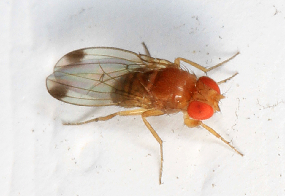 Spotted-winged Drosophila, Drosophila suzukii, Woodbridge, Virginia.